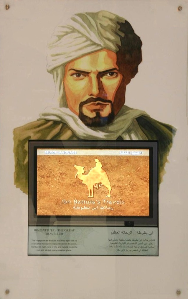 This is a photo showing an interactive display about Ibn Battuta in Ibn Battuta Mall in Dubai, United Arab Emirates on 2 June 2007.